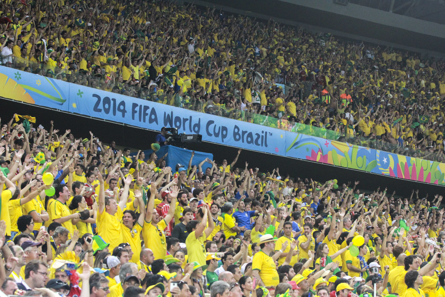 Brazil and Colombia match at the FIFA World Cup 2014-07-04